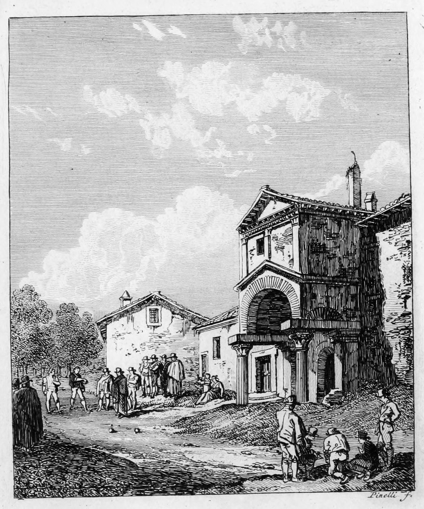 Engraving representing Piazza San Cosimato in the popular district of Trastevere at the time of the author.